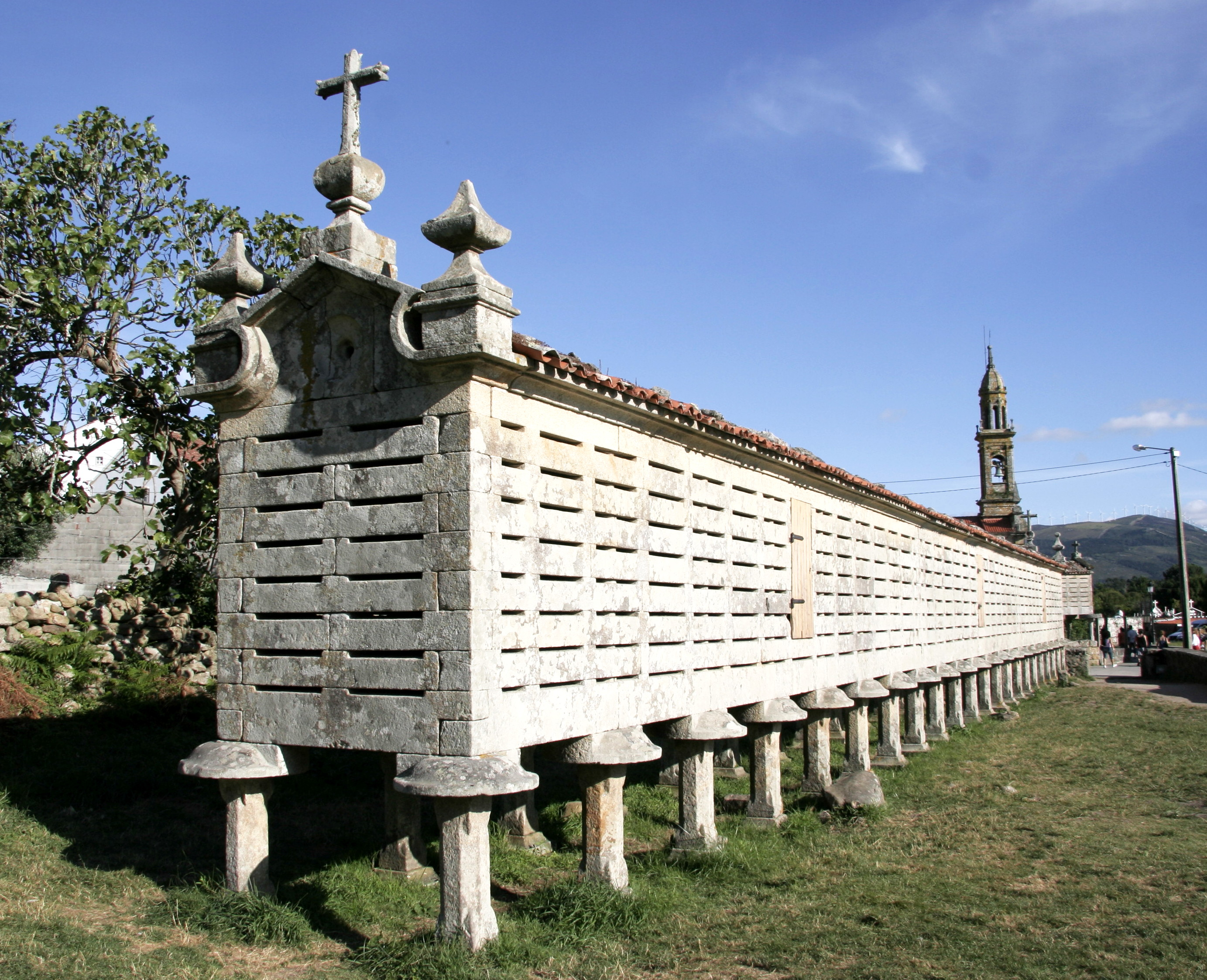 The "Hórreo de Carnoto" is said to be among the largest stone-made granaries in the world